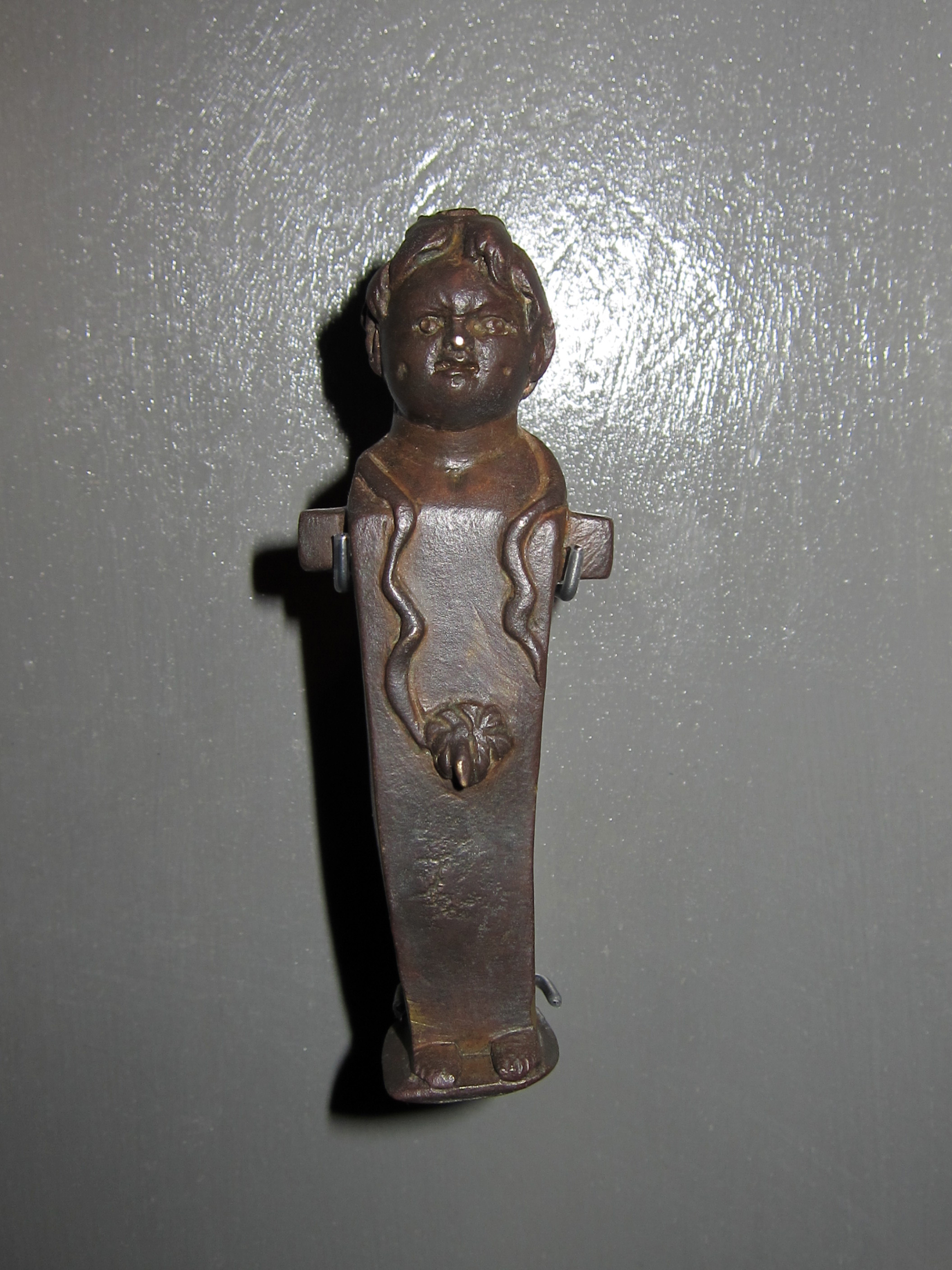 Museum of Prehistory and Archaeology of Cantabria. Fitting with a child Hermes from La Magdalena (Santander, Cantabria).